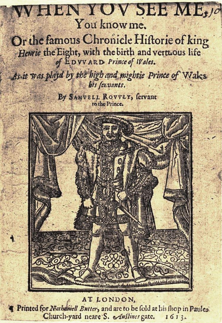 Title page of the second edition of Samuel Rowley's When You See Me You Know Me (1613) published in London by Nathanial Butter, British Museum copy, from the Tudor Facsimile reproduction published in 1913.